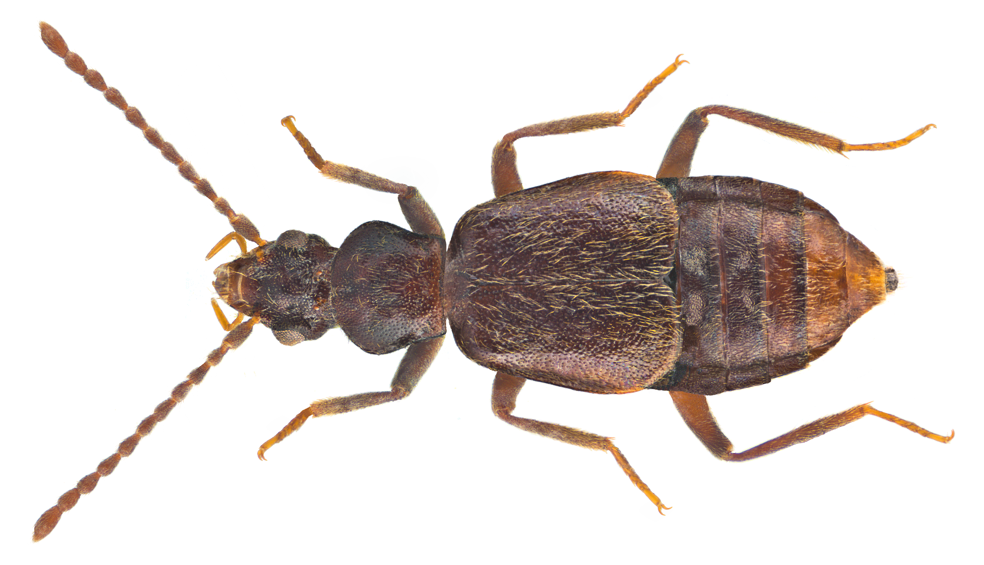 Family: Staphylinidae Size: 4,0 mm (3,5 to 4,0 mm) Distribution: in the Alps Ecology: lives on sources and streams in moss and gravel Location: Austria, Kaernten, Ferlach, 1100 m leg.det. U.Schmidt, 15.IX.1982 Photo: U.Schmidt, 2015